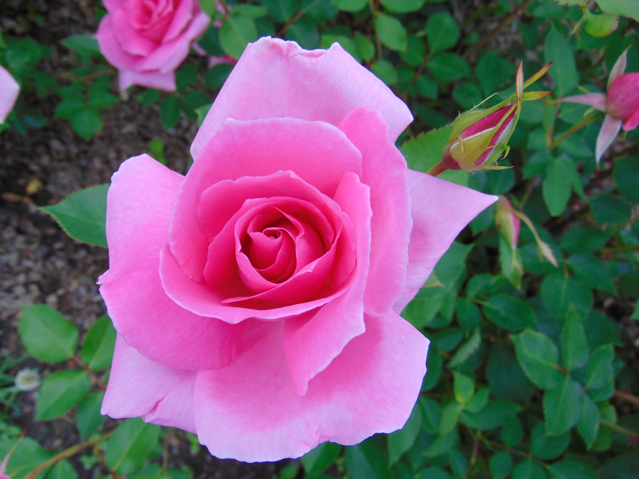 Jardin Botanique de Montréal